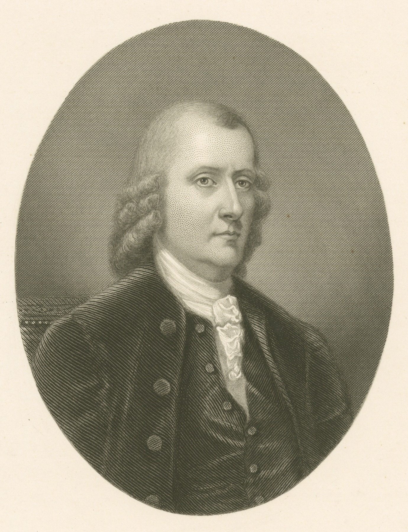 Includes photomechanical reproductions. Title from Calendar of Emmet Collection. EM10789